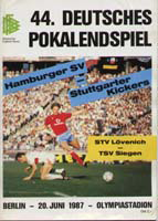 Cover of the magazin of the German Football Association to the 44. DFB Cup Final.